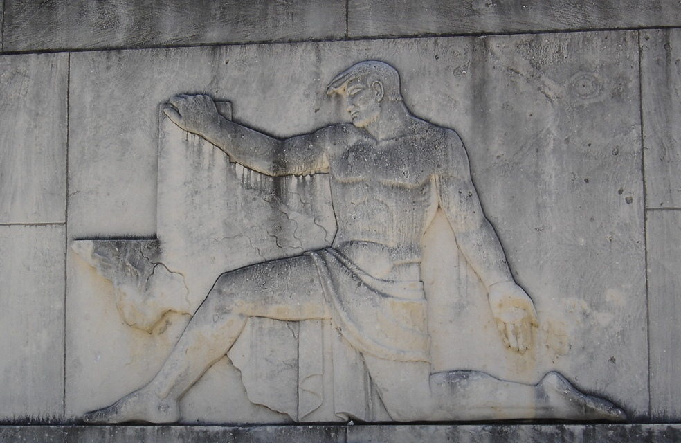 Relief behind the TMM building